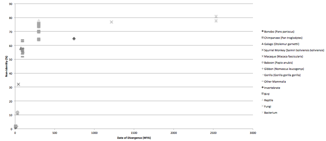 Percent Non-identity vs. Date of Divergence